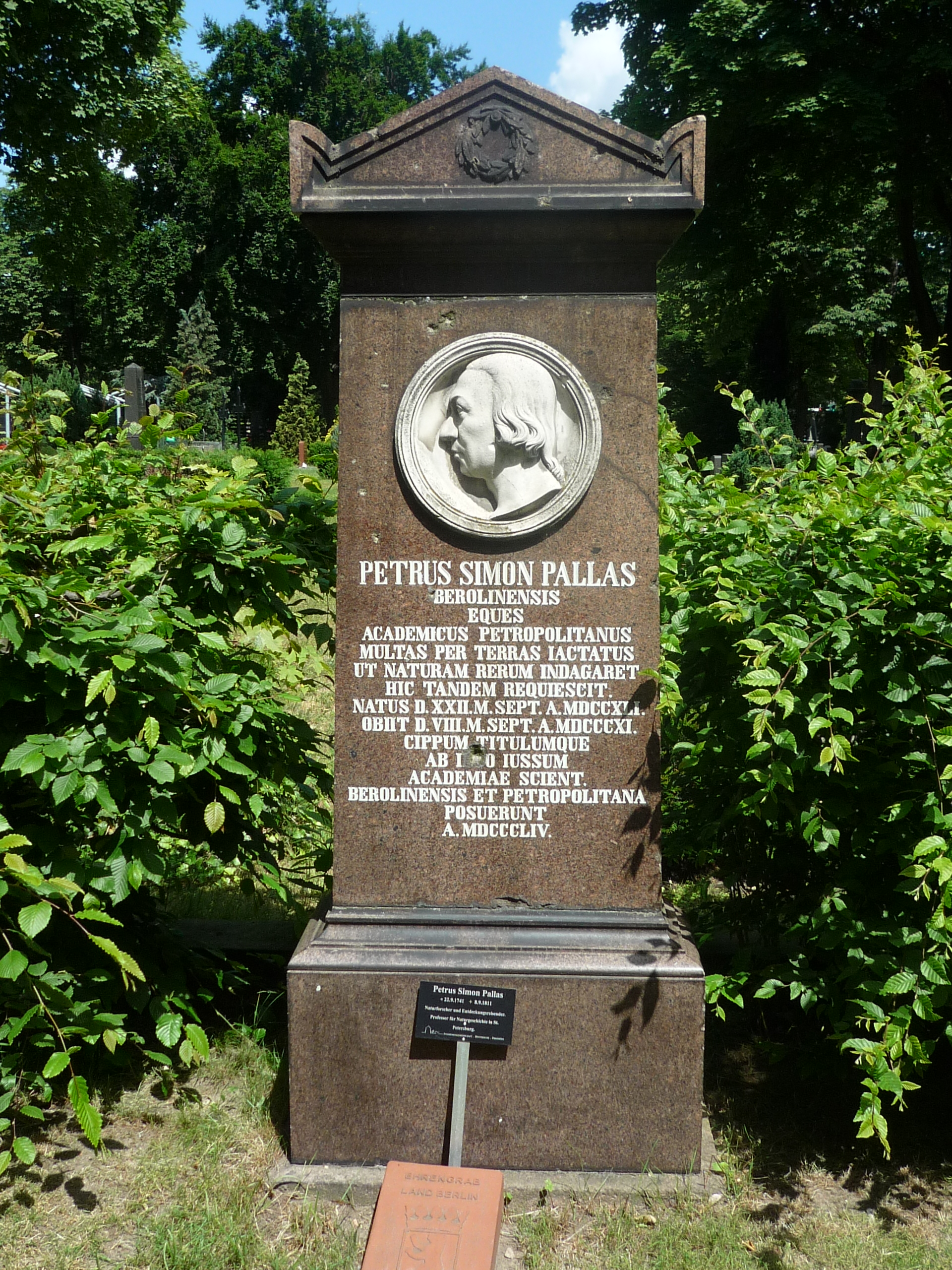 Tombstone for Peter Simon Pallas (1741-1811), a german scientist. Berlin.